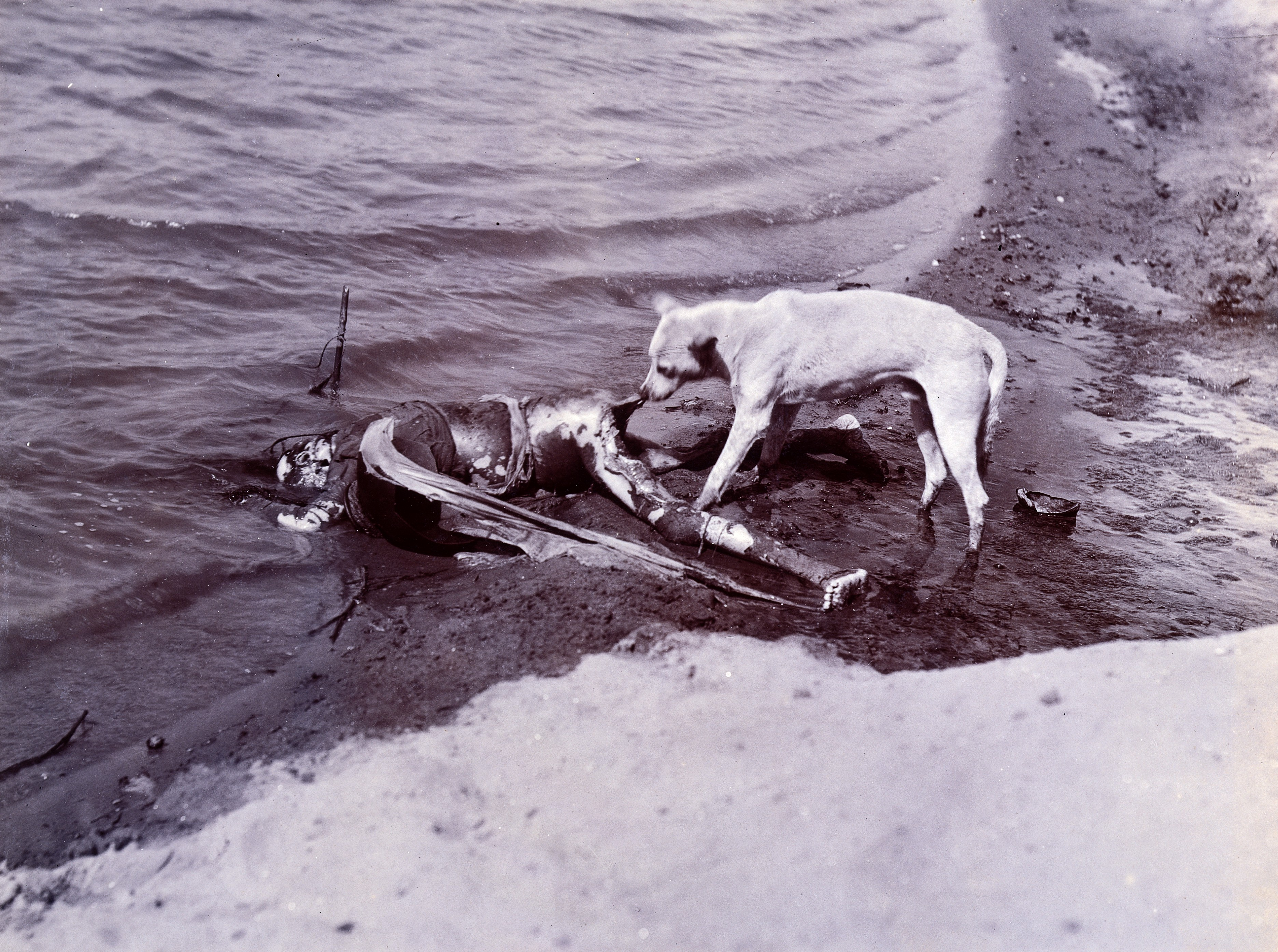 Benares (Varanasi), Uttar Pradesh: a human cadaver abandoned in the water being examined by a dog. Photograph. Iconographic Collections Keywords: India